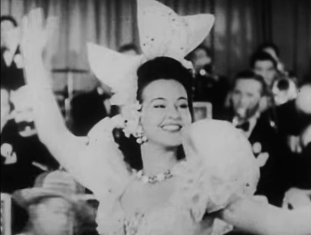 Mapy Cortés in Seven Days' Leave trailer (1942)